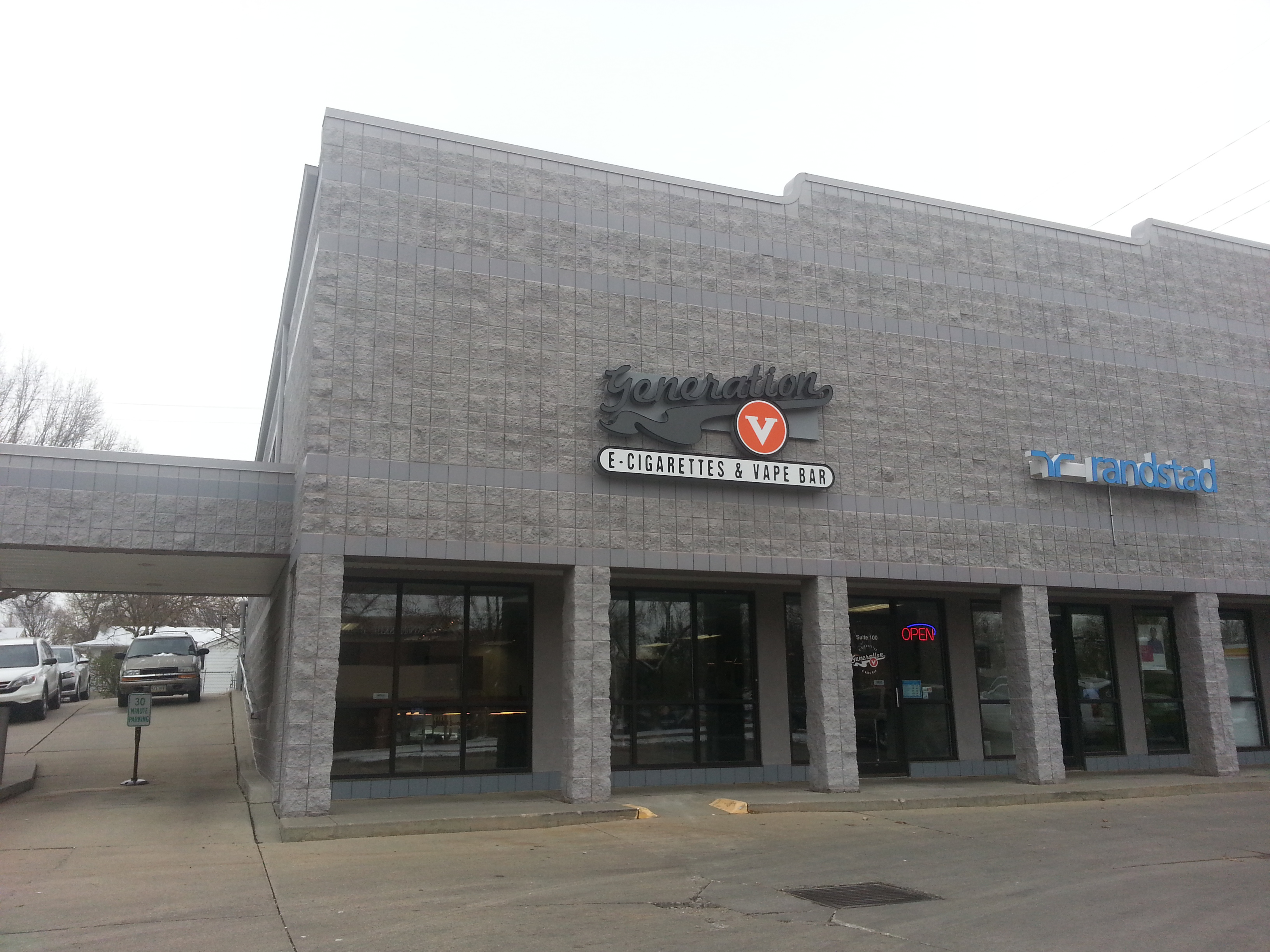 This image is one item in a group of eight, which contains a photograph of the exterior of each vapor-specific shop operating in Lincoln, Nebraska as of April 2014. Incidentally, vaping is not a hobby of mine, but rather I took these images for posterity.